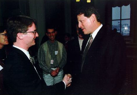 David Nelson meeting Vice President Al Gore in 1996 in Washington at the Indian Treaty Room of the Old Executive Office Building. For use at WP: David Nelson (Utah activist)